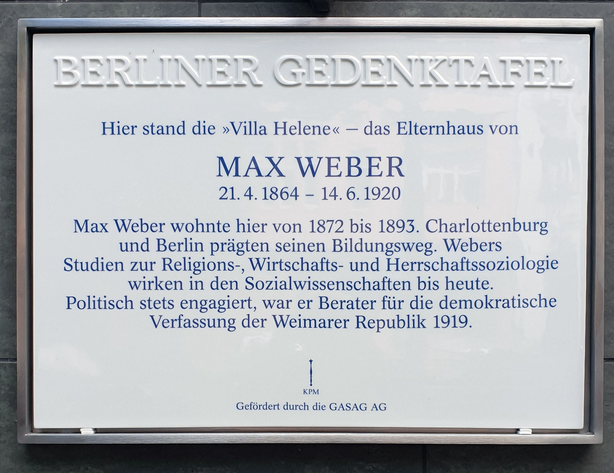 Berlin memorial plaque, Max Weber, Leibnizstraße 21, Berlin-Charlottenburg, Germany